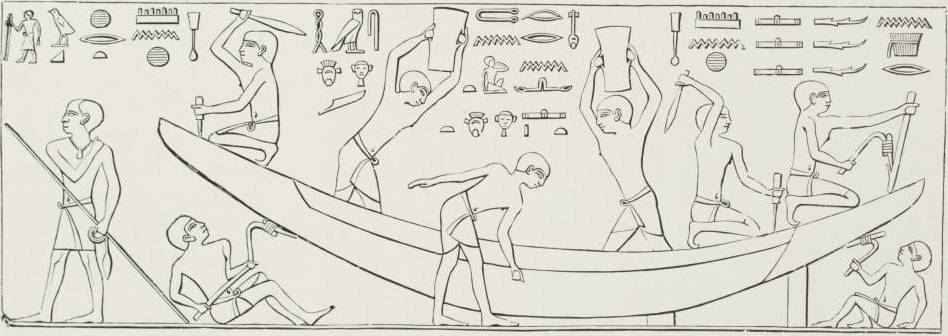 A team of men building a ship, with hieroglyphic text.